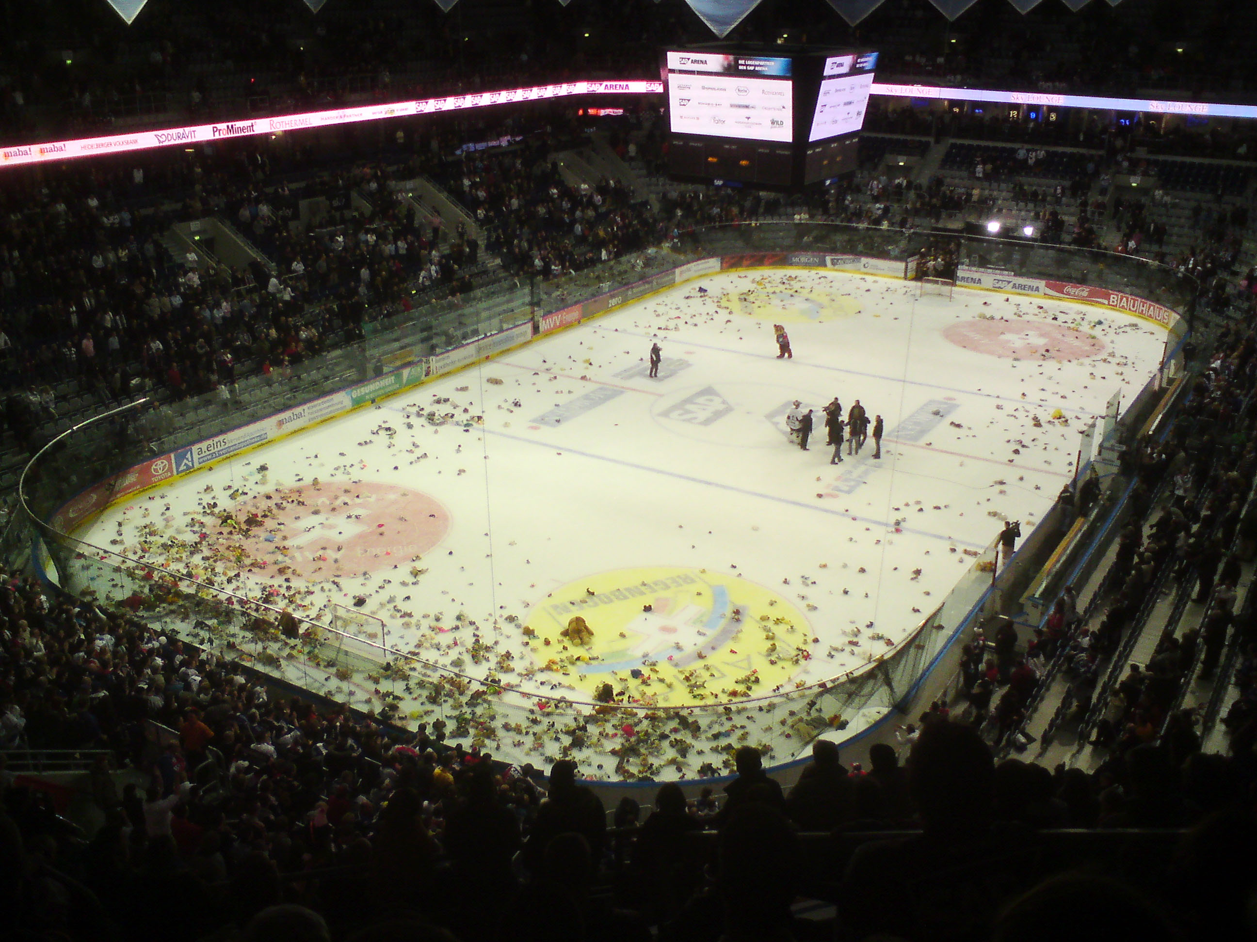 Ice rink of the SAP-Arena after the Teddy Bear Toss